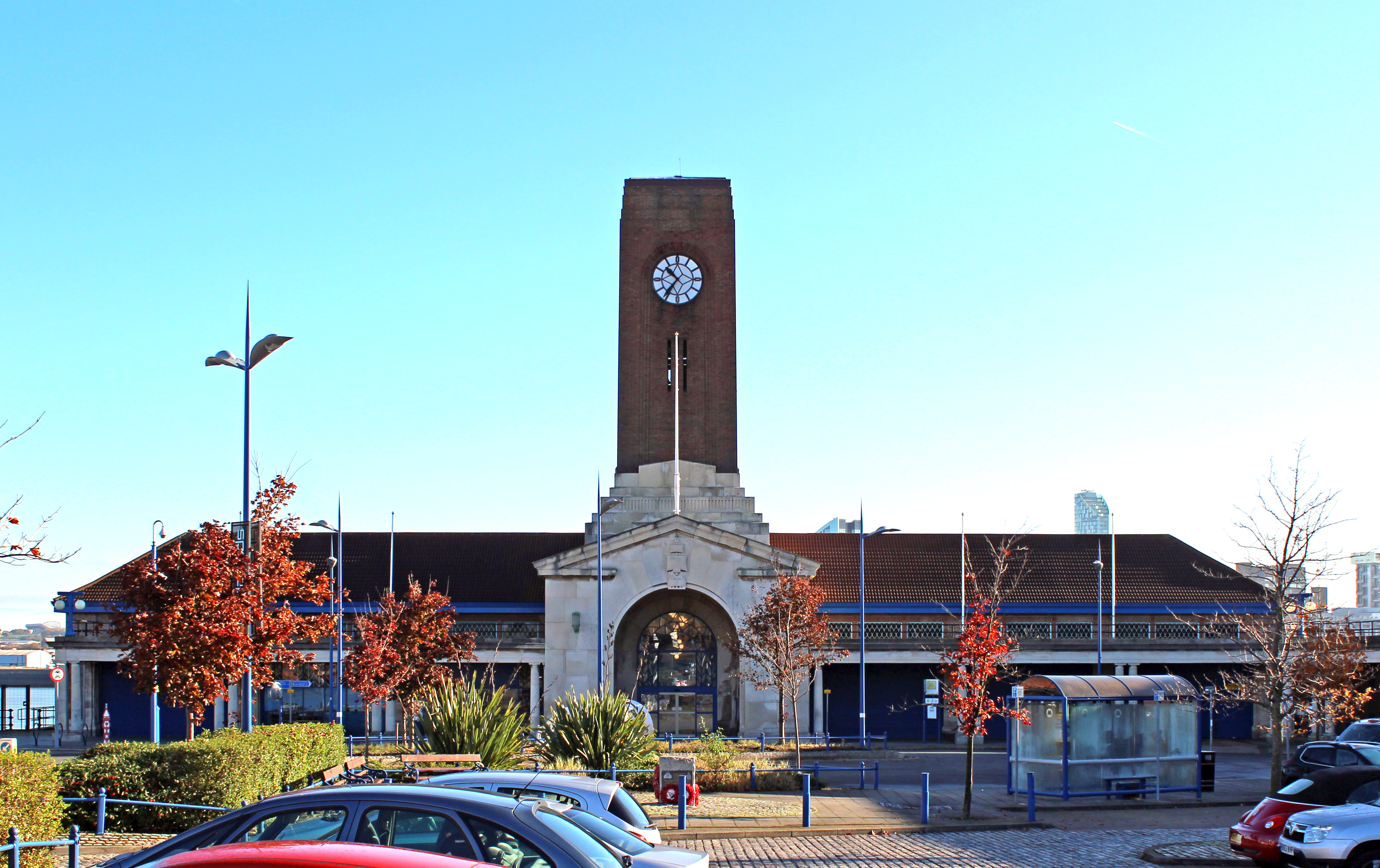 Frontage of the terminal building.